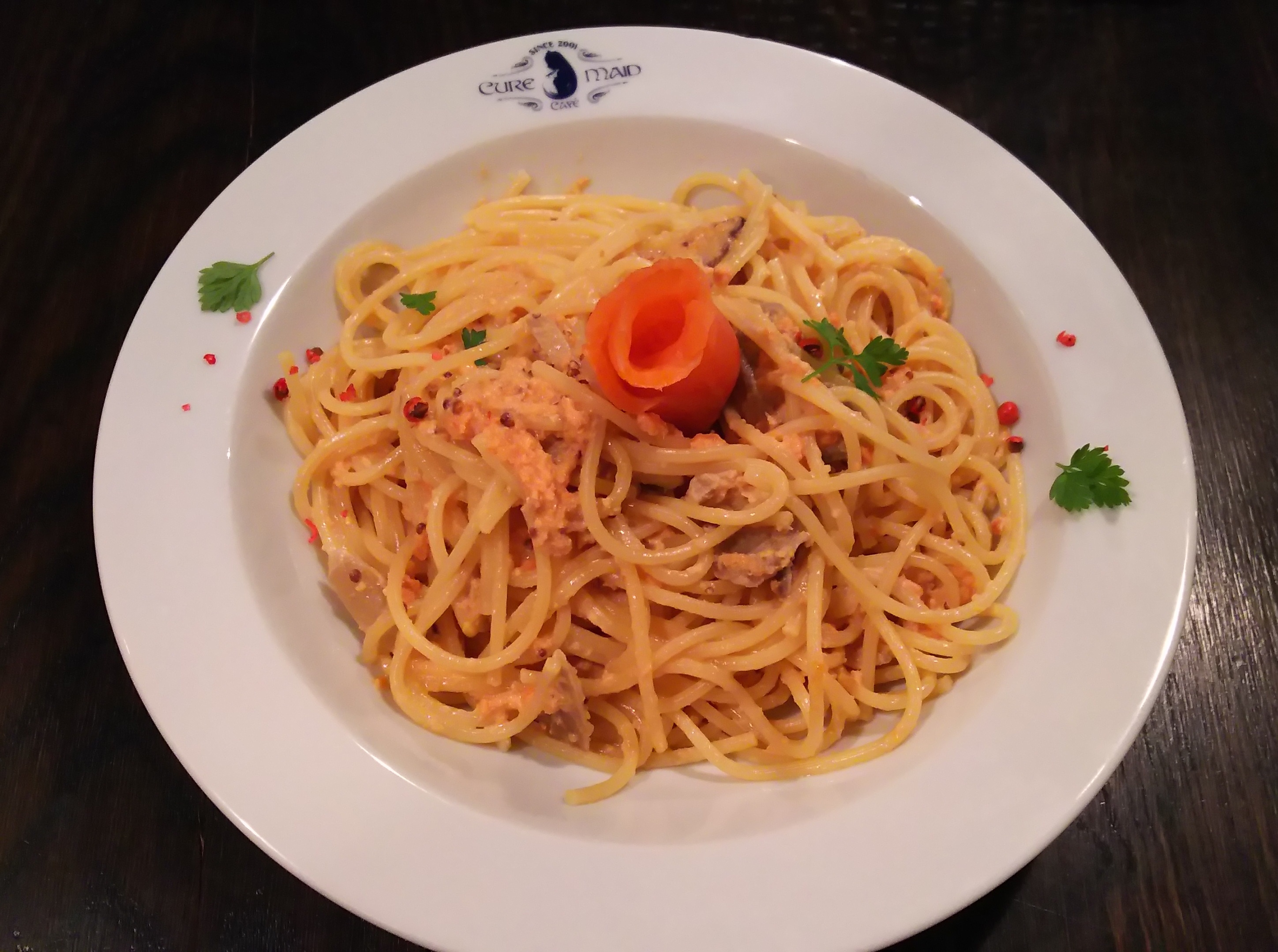 This is Kanon & Shiho's Secret Garden Pasta served by Cure Maid Café in Akihabara, Tokyo, Japan. It was a collaboration menu with the game "Battle Girl High School".